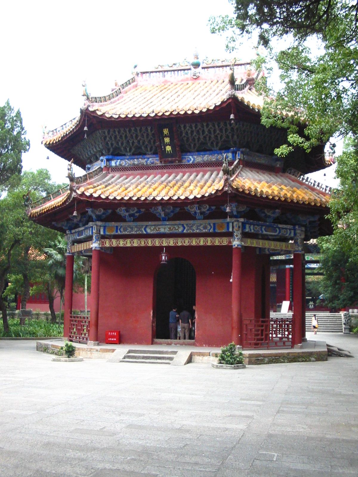 yubeiting, Grand Temple of Mount Heng